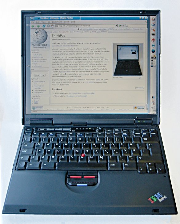 ThinkPad T20 (model 2647-44G) with a Finnish/Swedish keyboard